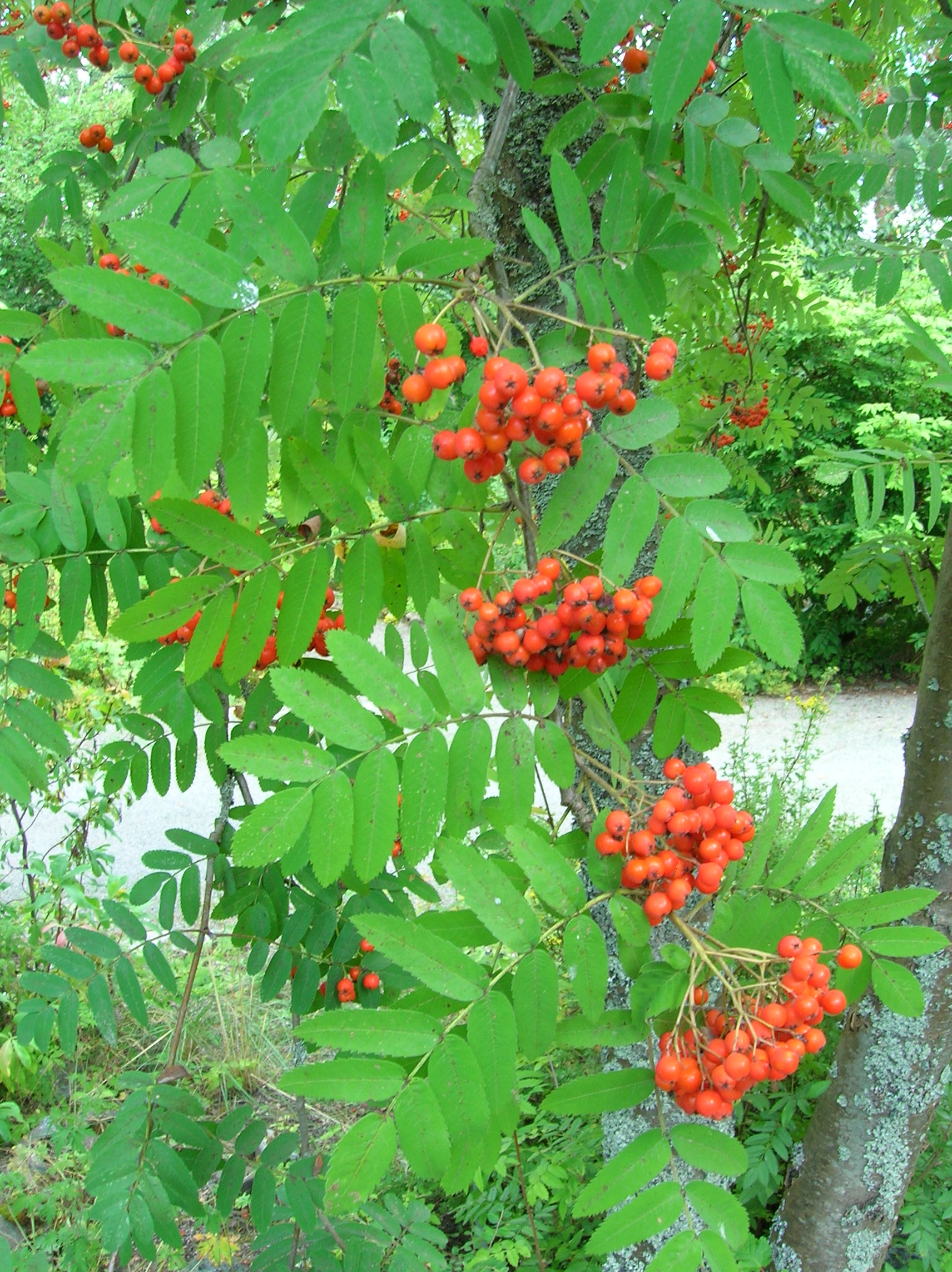 Sorbus sibirica at the ÖBG Bayreuth